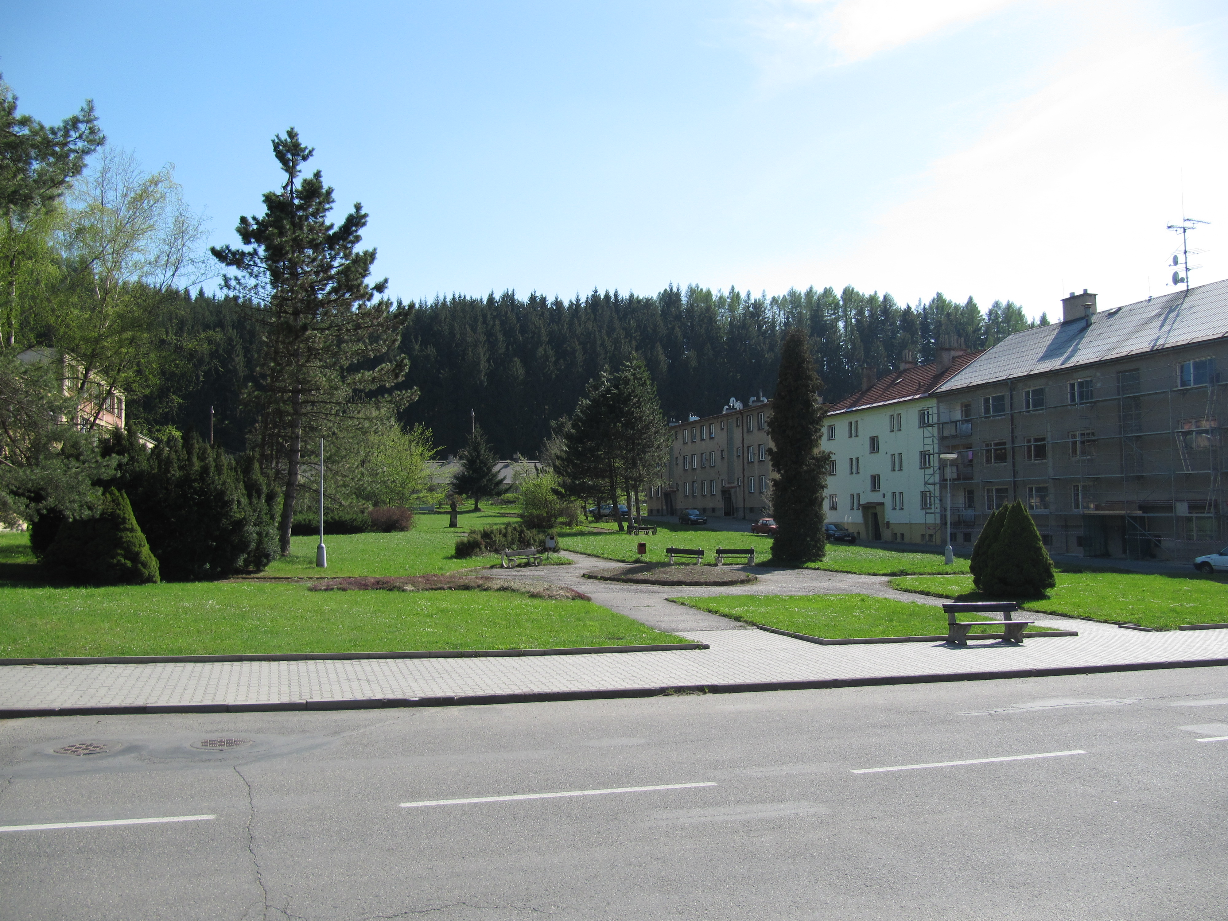 Karolinka, Vsetín District, Czech Republic.